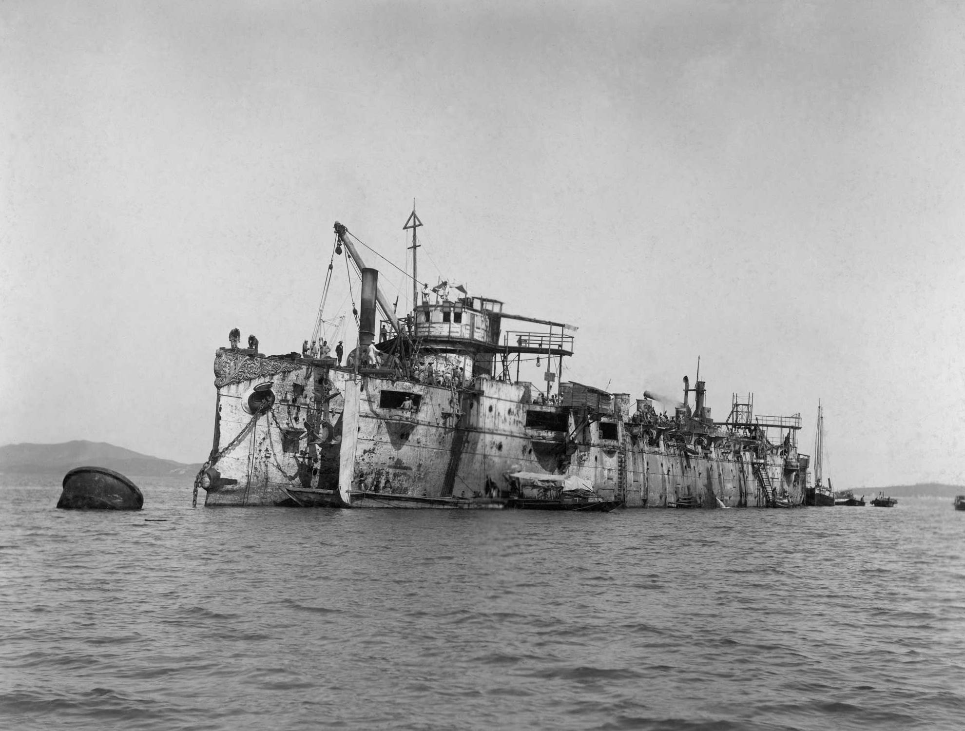 Imperial Russian cruiser Vaiag, 8 Augst 1905.